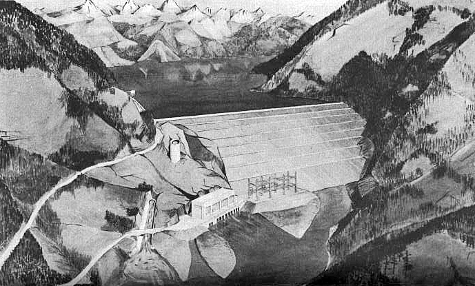 The never built Glacier View Dam on the North Fork of the Flathead River, Montana. Proposed site was next to Glacier National Park.